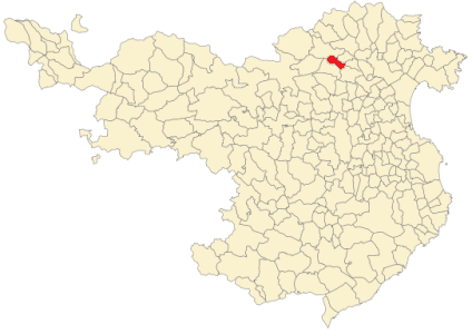 Boadella